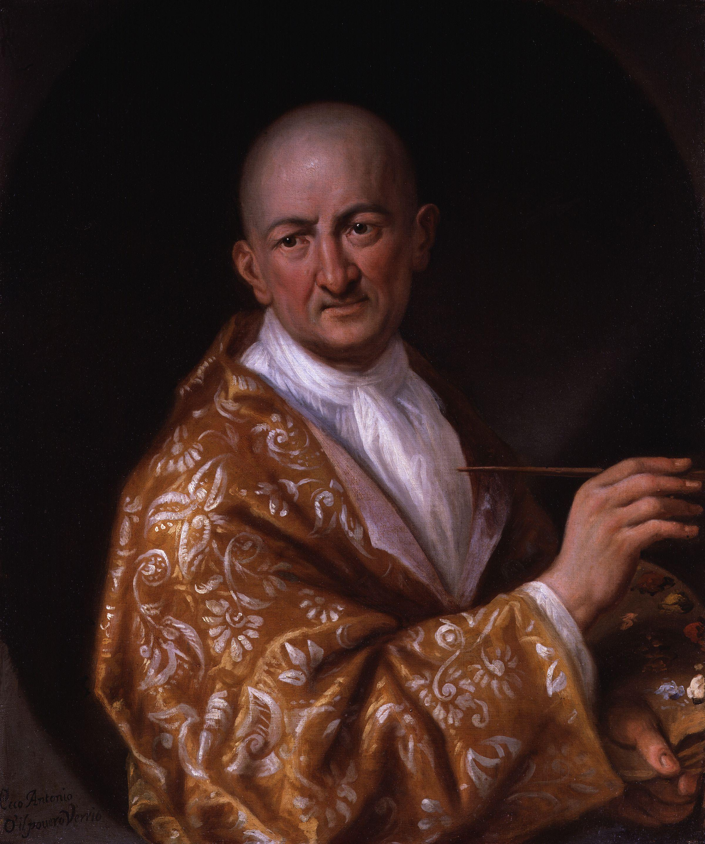 Antonio Verrio, by Antonio Verrio (died 1707). All images in this batch have been confirmed as author died before 1939 according to the official death date listed by the NPG